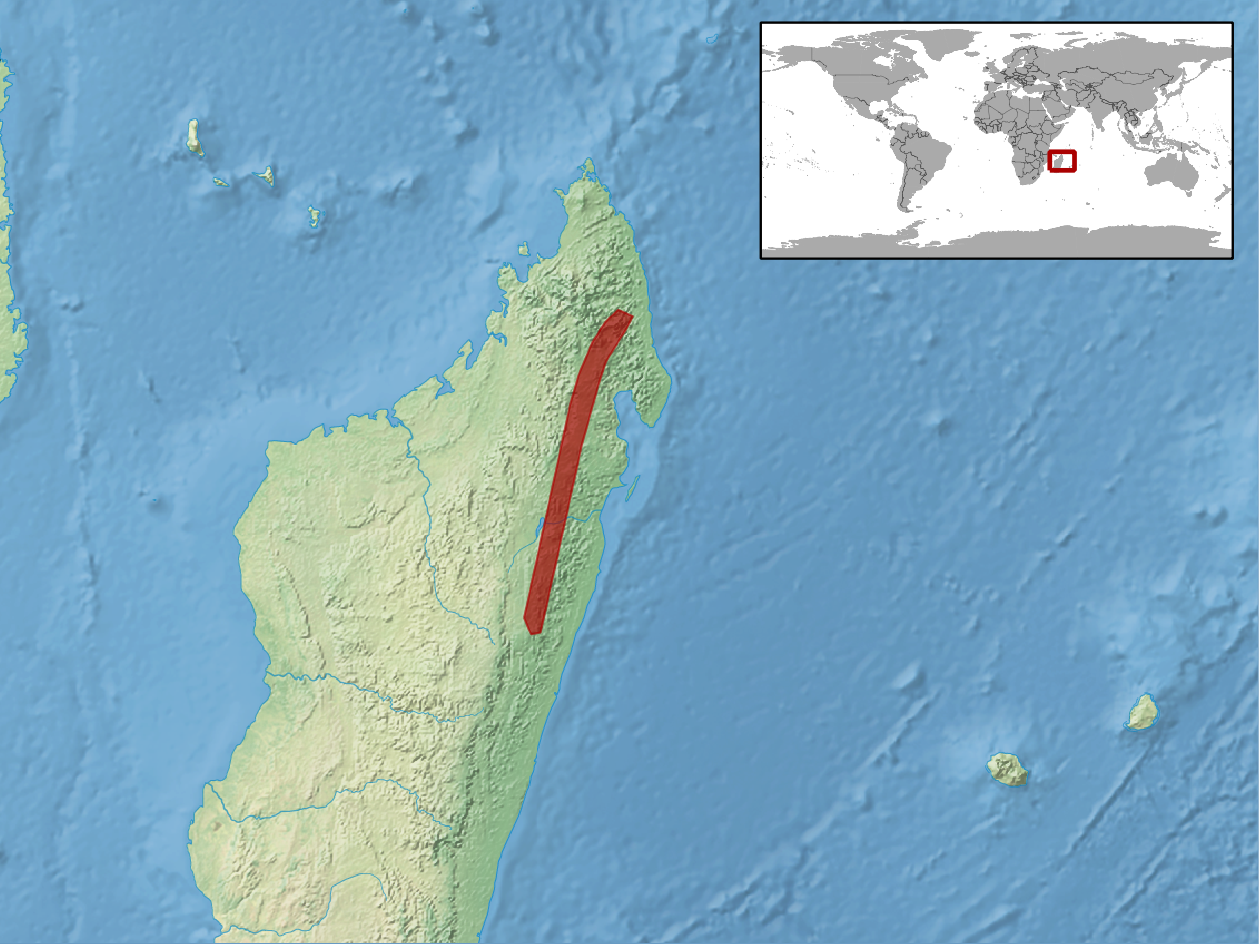 geographic distribution of Lygodactylus bivittis (Native: Madagascar)